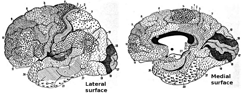 This drawing shows the regions of the human cerebral cortex as delineated by Korvinian Brodmann on the basis of cytoarchitecture.